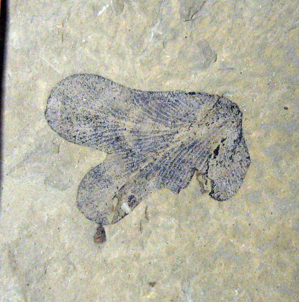 A 2cm wide pinnule of Lygodium kaulfussi from the Eocene, Parachute Creek member, Green River Formation, Colorado, USA. Stonerose Interpretive Center # SR DU ??-??-?? B.